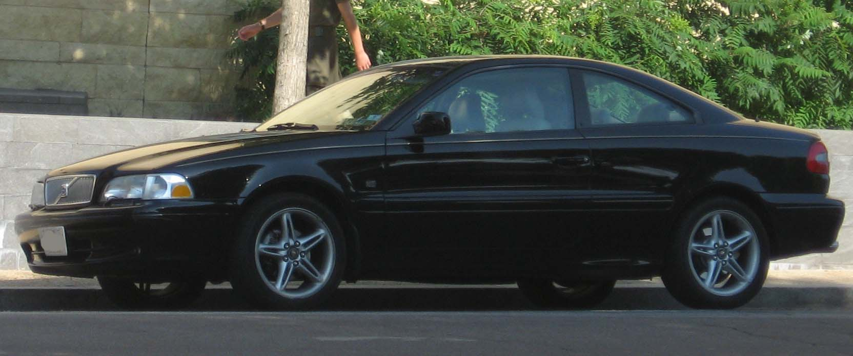 Volvo C70 photographed in USA.